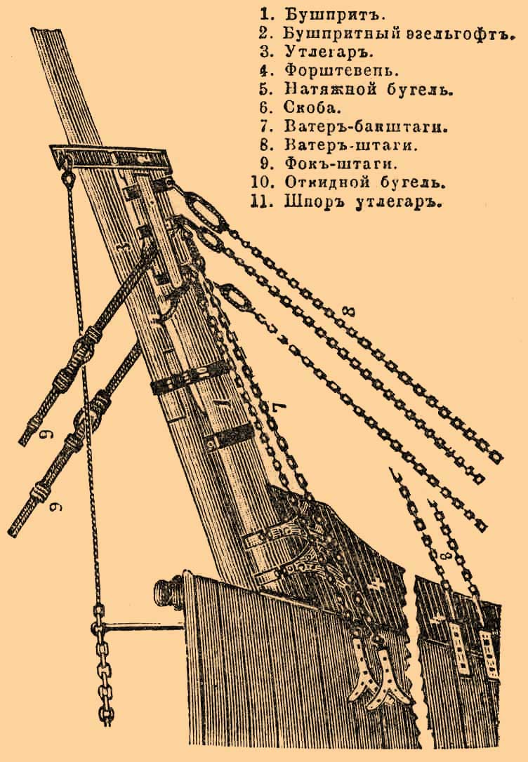 Illustration from Brockhaus and Efron Encyclopedic Dictionary (1890—1907)